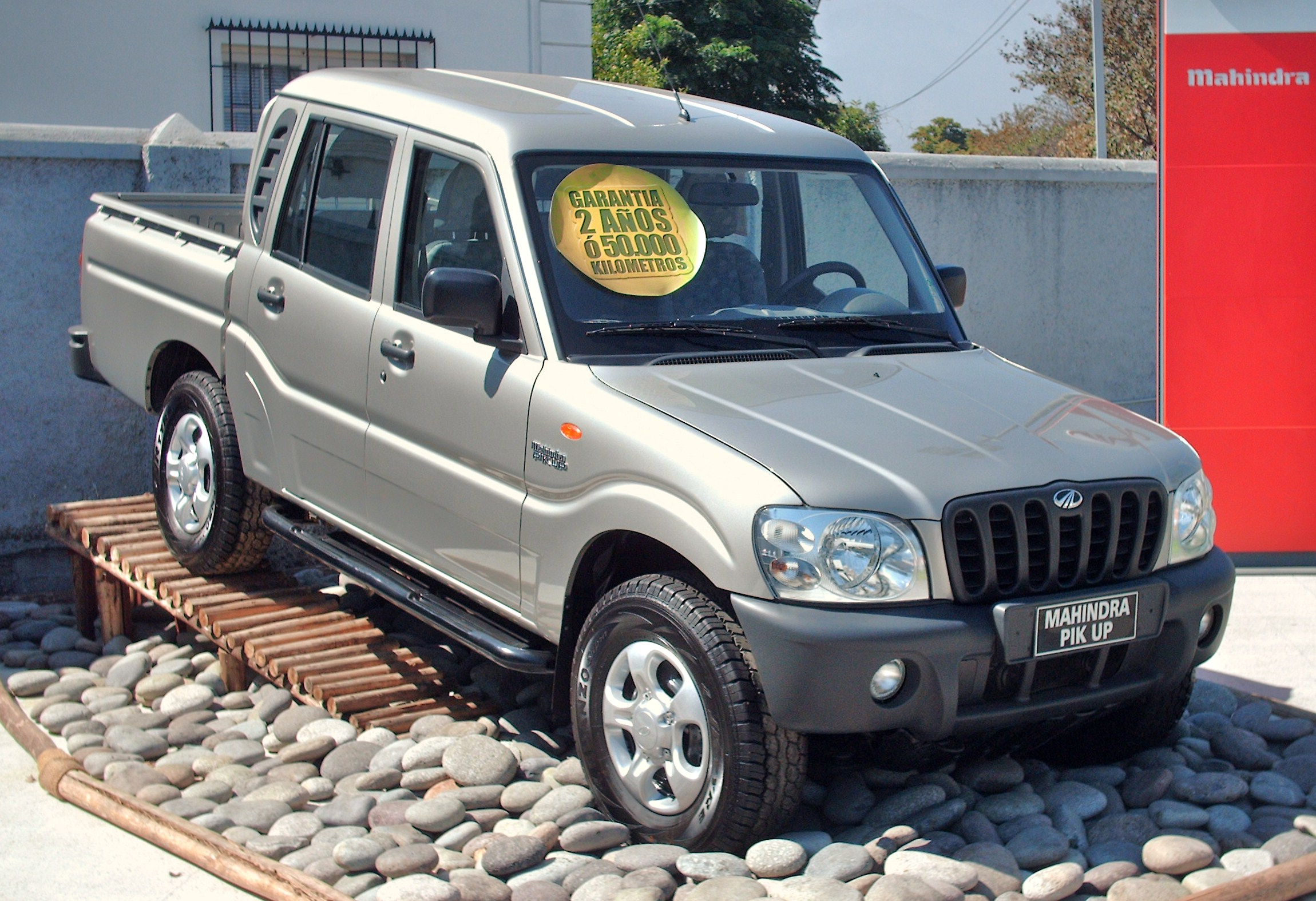 Mahindra Scorpio Pik Up at a dealership in Santiago, Chile. Brand new.